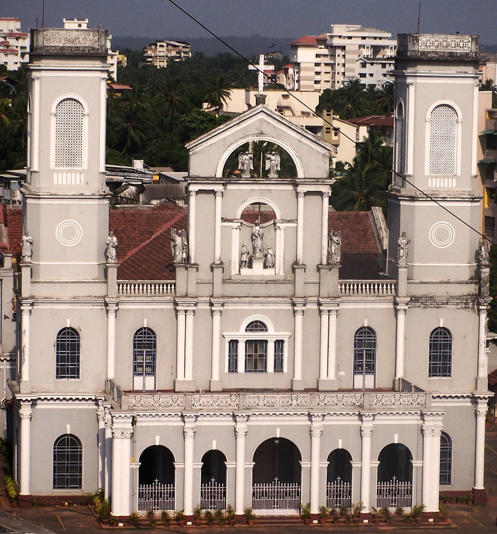 This is an image of Milagres church in Hampankatta, Mangalore.